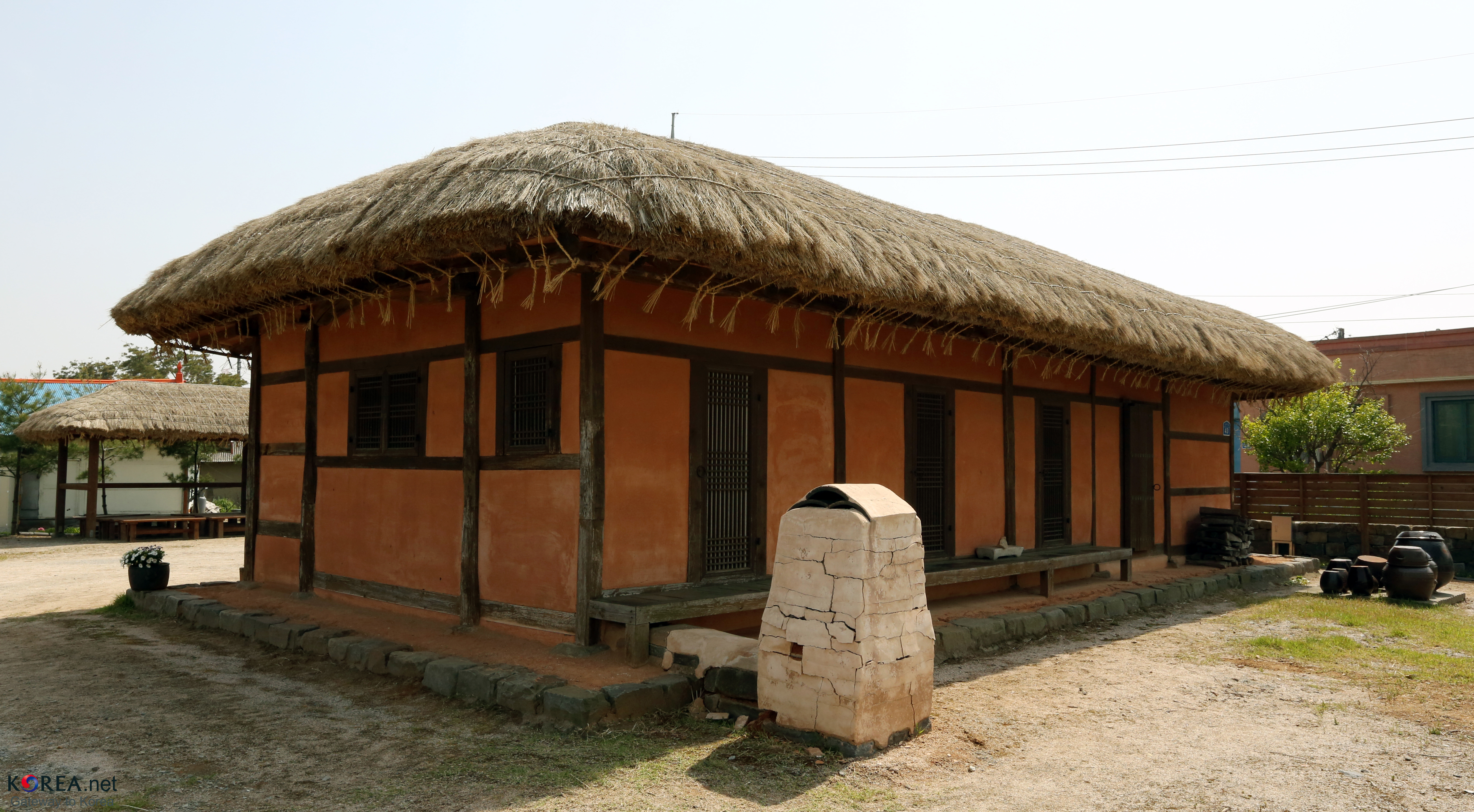 Shrine of Sinri Saint Bishop Daveluy Residence May 13, 2014 Sin-ri, Hanpdeok-eup, Dangjin-si, Chungcheongnam-do Ministry of Culture, Sports and Tourism Korean Culture and Information Service ( Official Photographer: Jeon Han This official Republic of Korea photograph is CC-BY-SA-2.0-licensed, so while restrictions such as personality or privacy rights may apply, in general, manipulations are allowed. If you require a photograph without a watermark, please use Flickr e-mail. 신리성지 다블뤼 주교관 2014-05-13 충청남도 당진시 합덕읍 신리 문화체육관광부 해외문화홍보원 코리아넷 전한